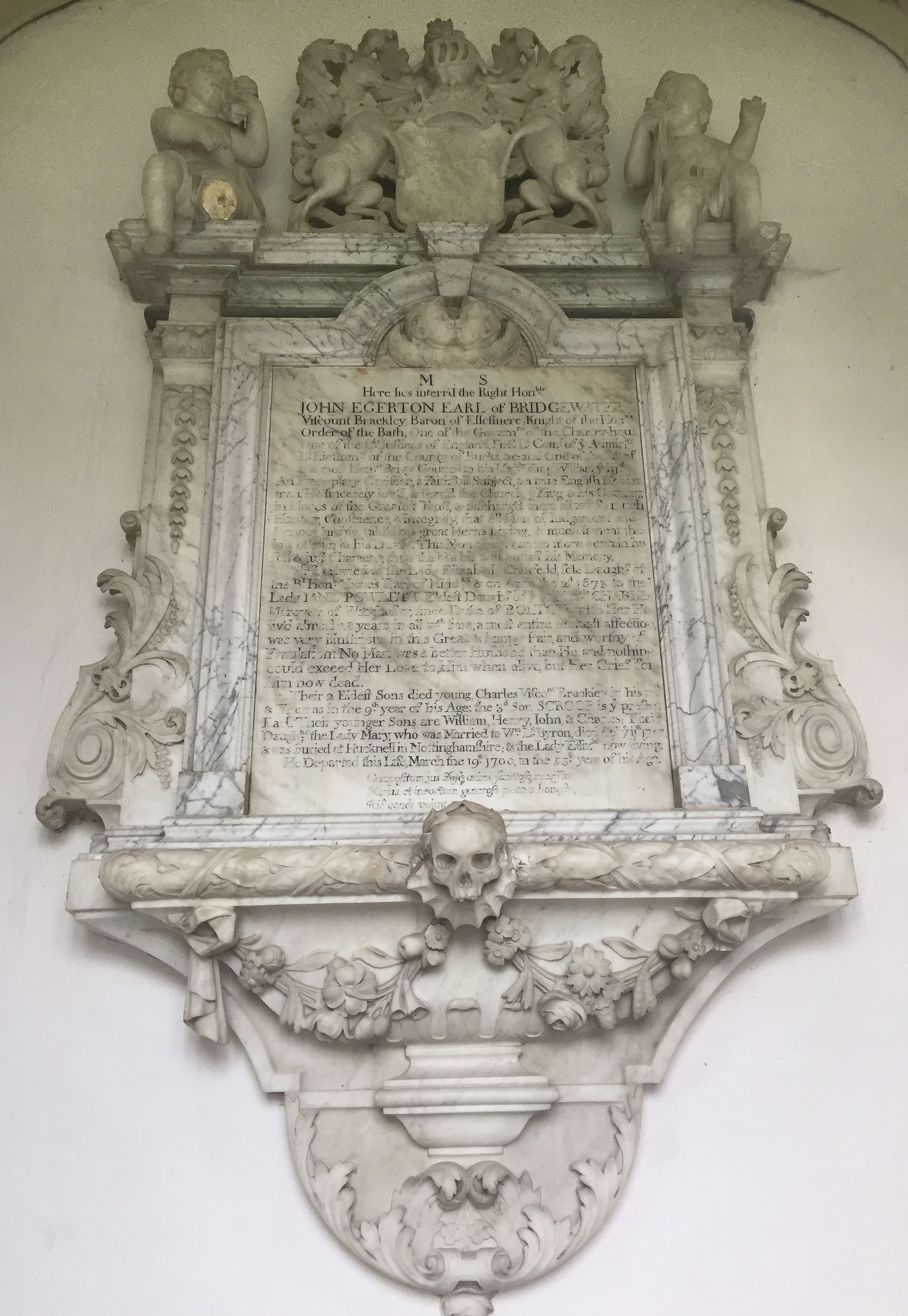 Memorial to John Egerton, 3rd Earl of Bridgewater (9 November 1646 – 19 March 1701), in the Bridgewater Chapel, Little Gaddesden Church, Hertfordshire, UK